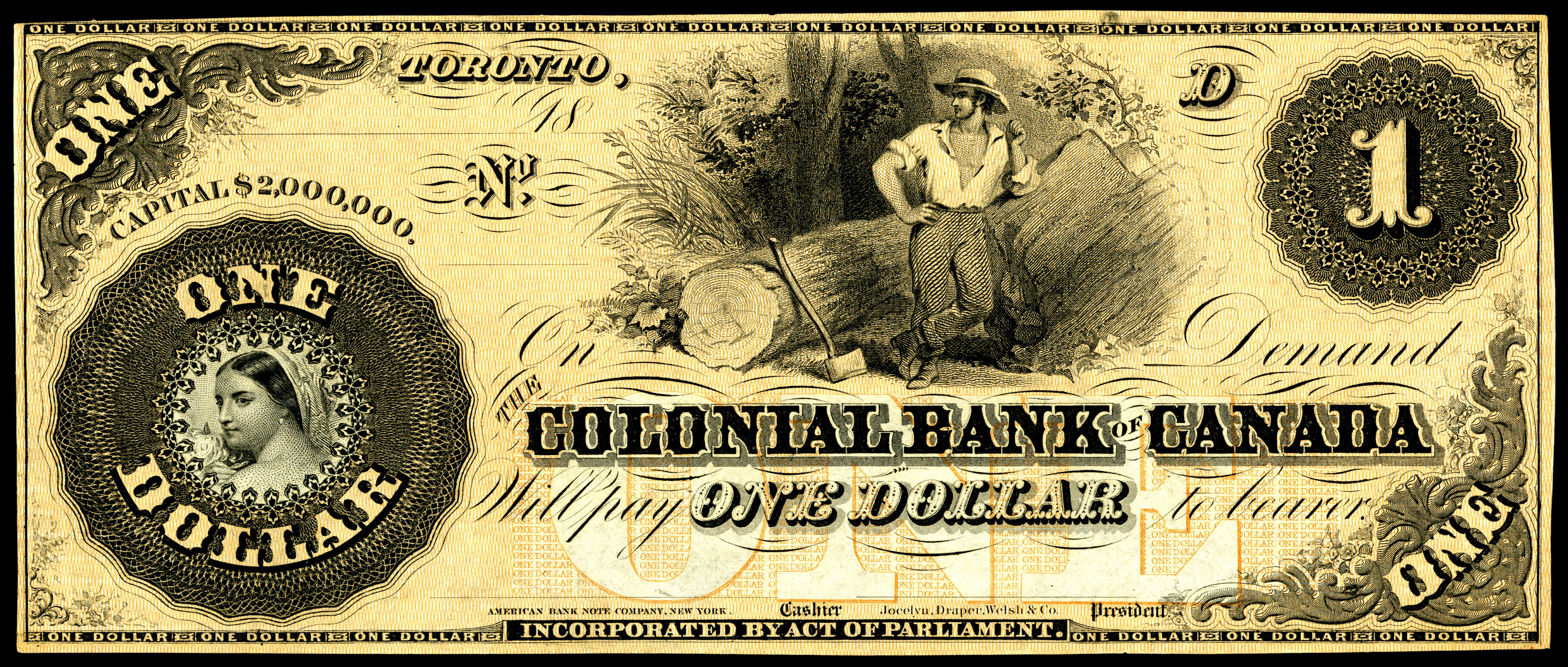 CAN-S1666-Colonial Bank of Canada, Toronto-1 Dollar (1859)